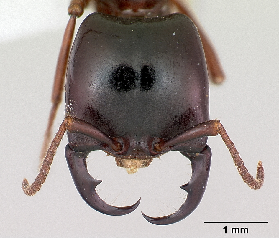 Head view of ant Dorylus gribodoi specimen casent0172626.